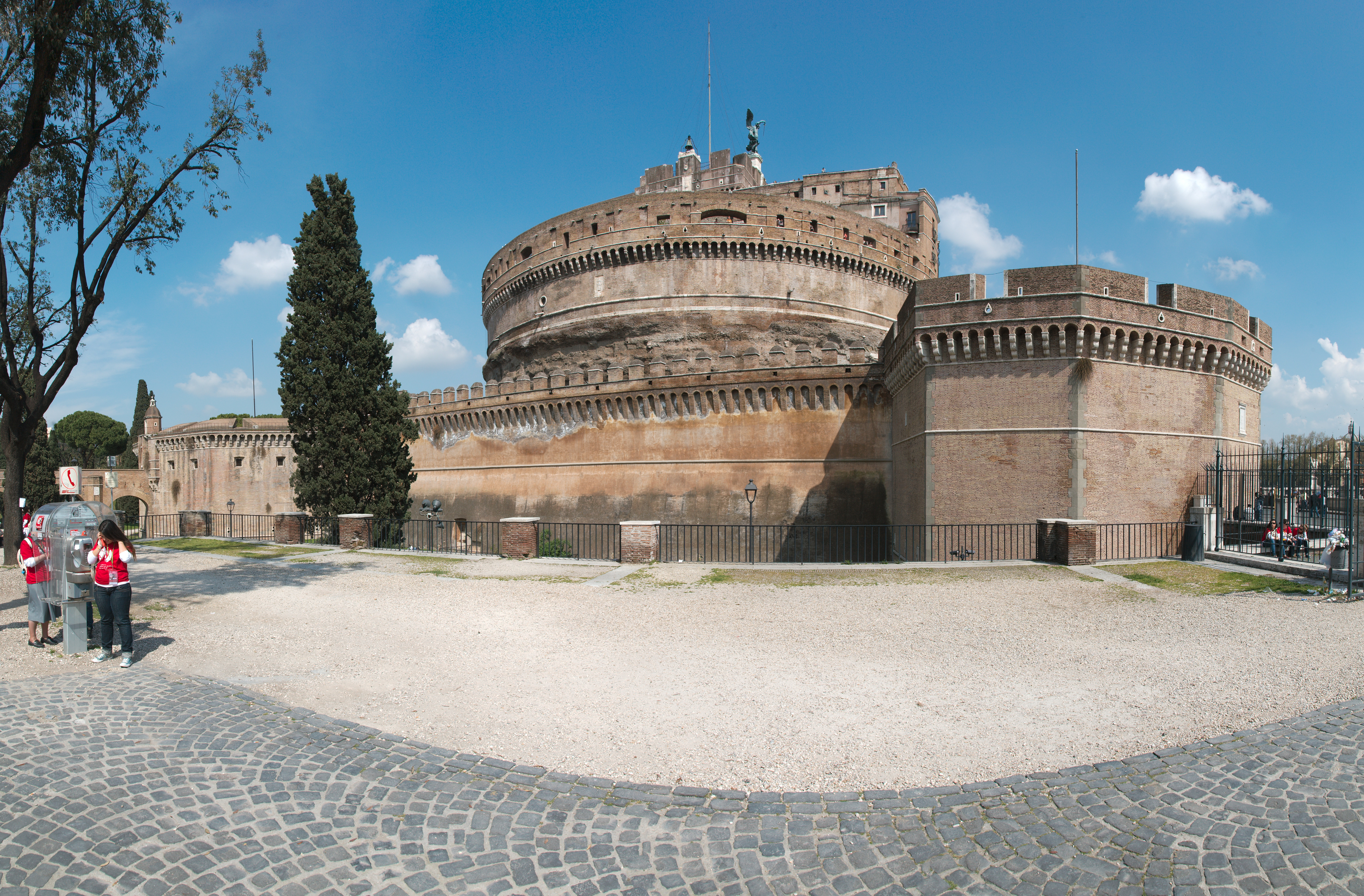 Castel del Angelo from west